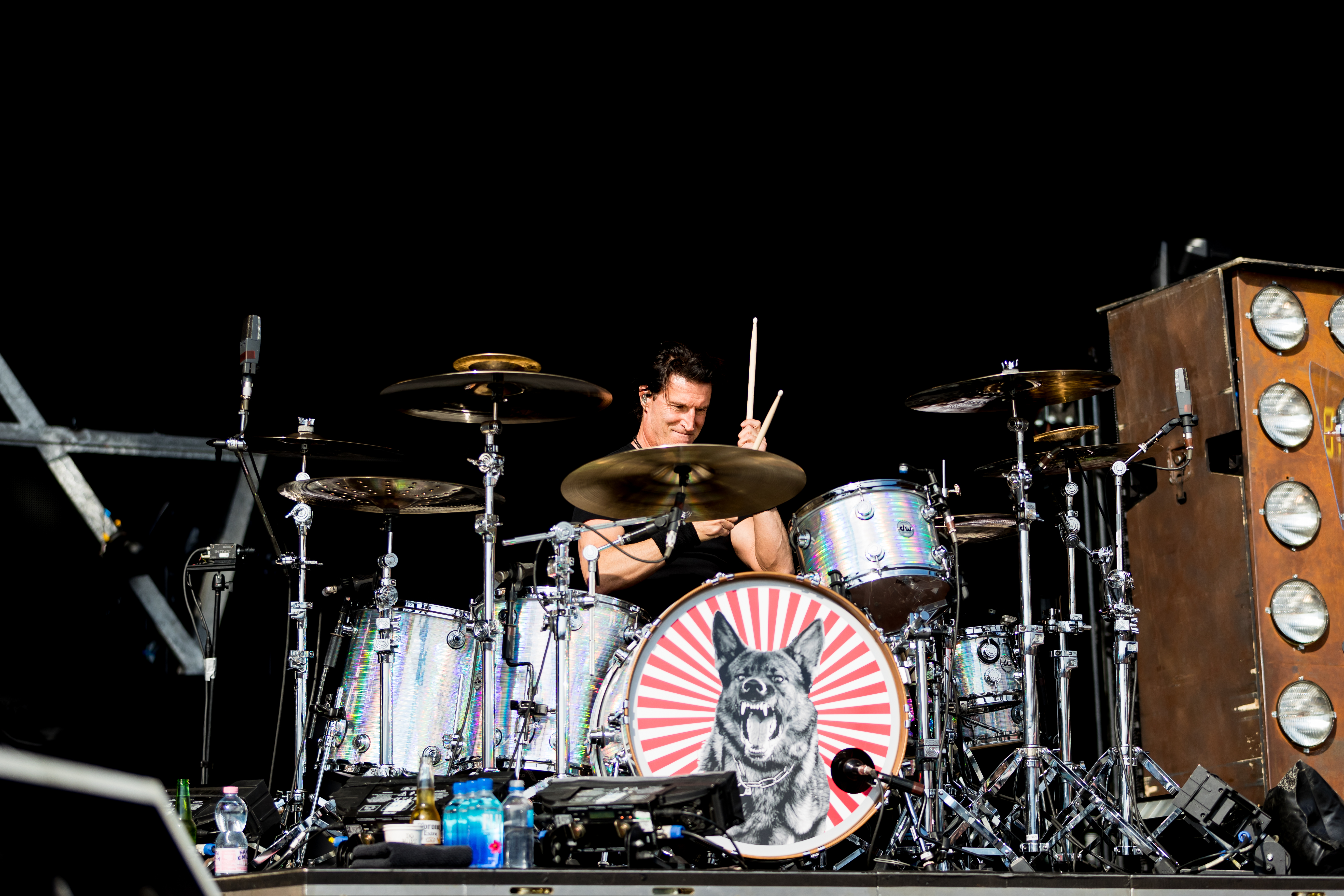 Alice in Chains during Rock am Ring ( at Nürburgring, Rheinland-Pfalz, Germany on 2019-06-07, Photo: Sven Mandel Promotion by Live Nation (